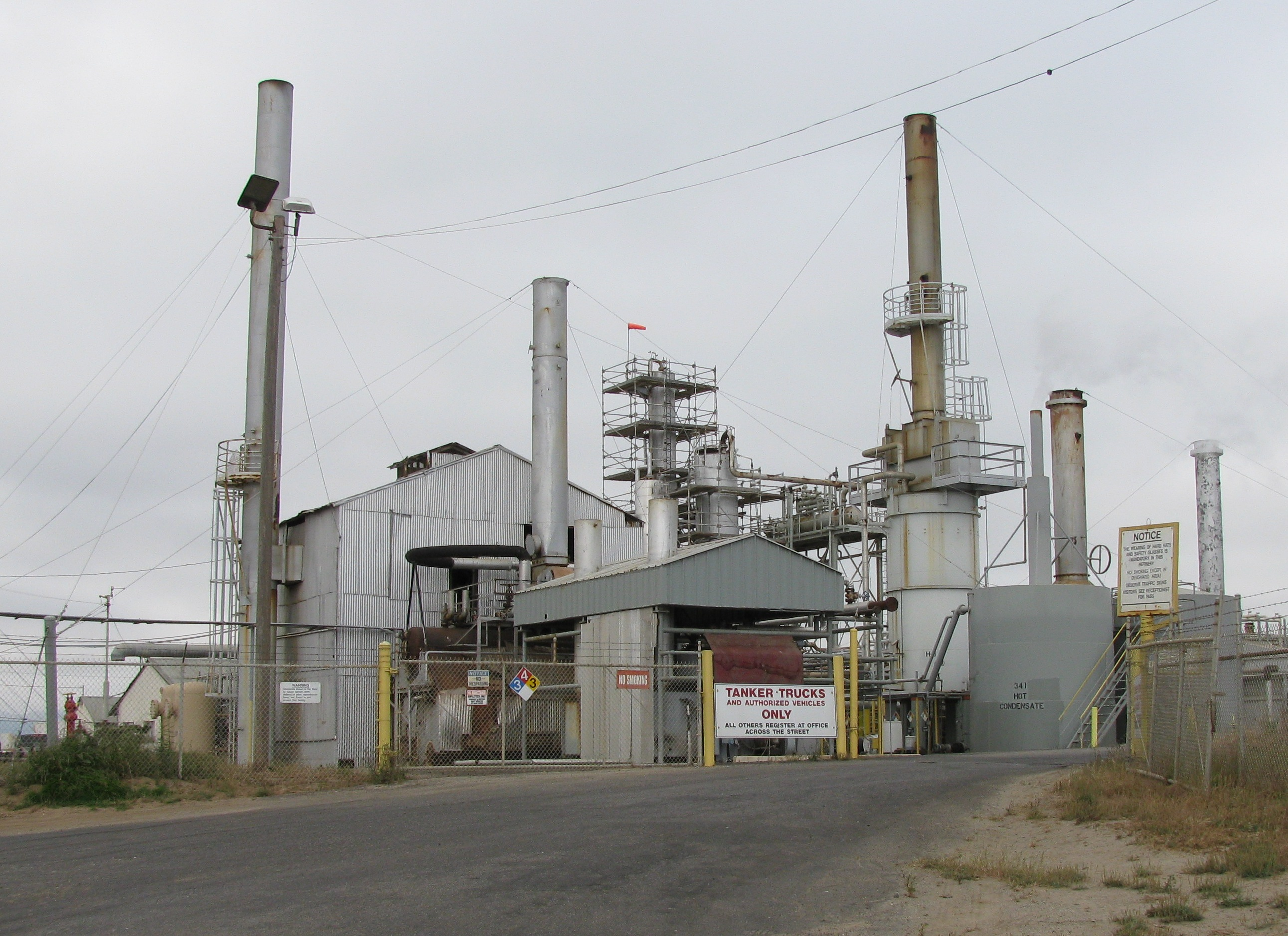 Main gate of Greka refinery; photo by self, 5/31/09; GFDL or equivalent